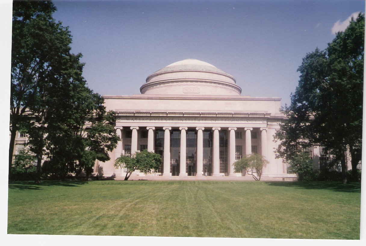 M.I.T- Cambridge, MA, U.S.A